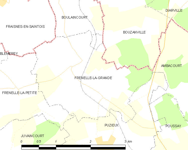 Map of French municipality Frenelle-la-Grande